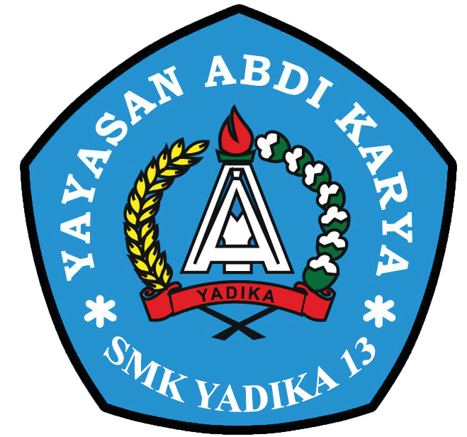 This logo for vocational school YADIKA 13